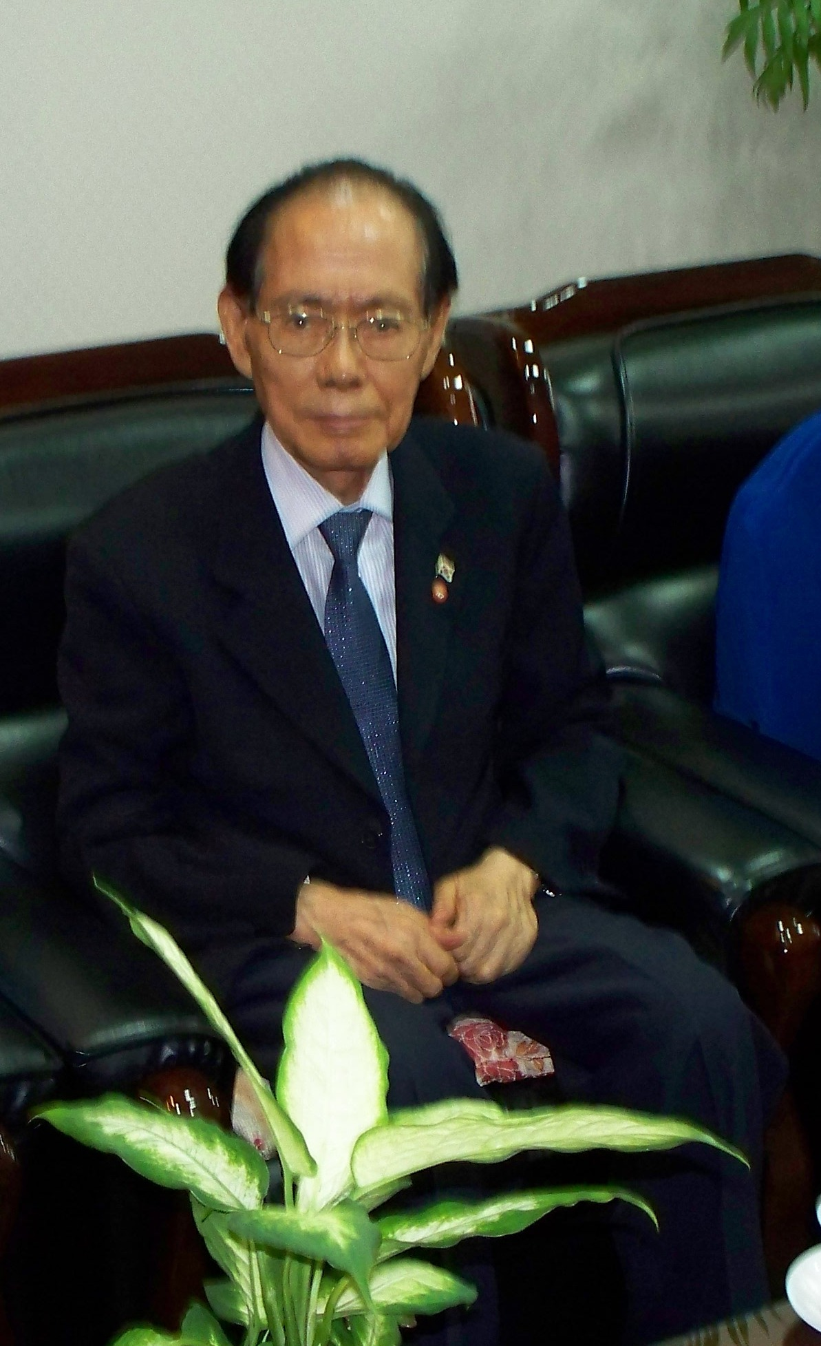 Hwang Jang Yeop, September 2009, Seoul, Korea.